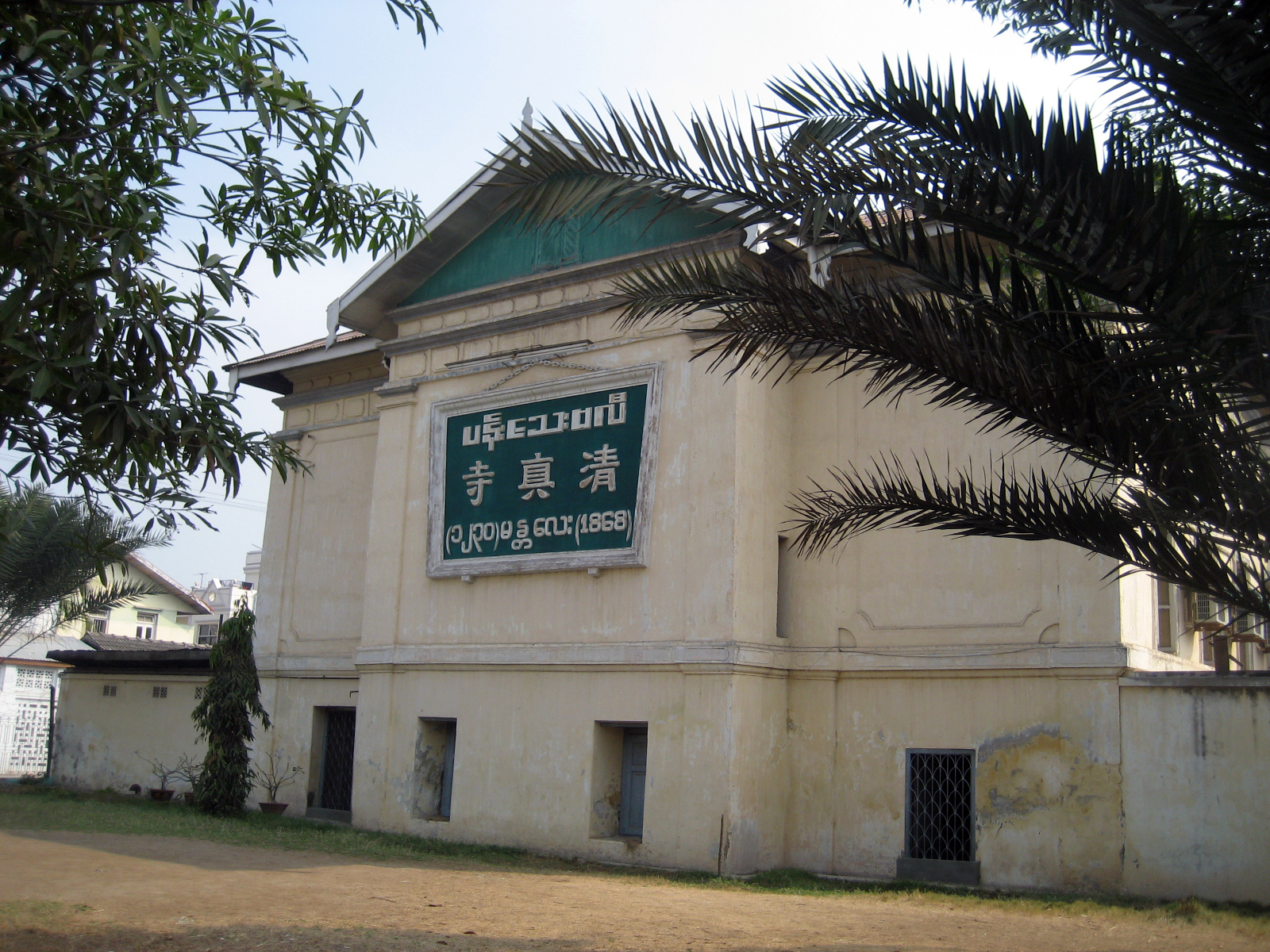 80th & 36th, Mandalay, Myanmar Panthay Mosque